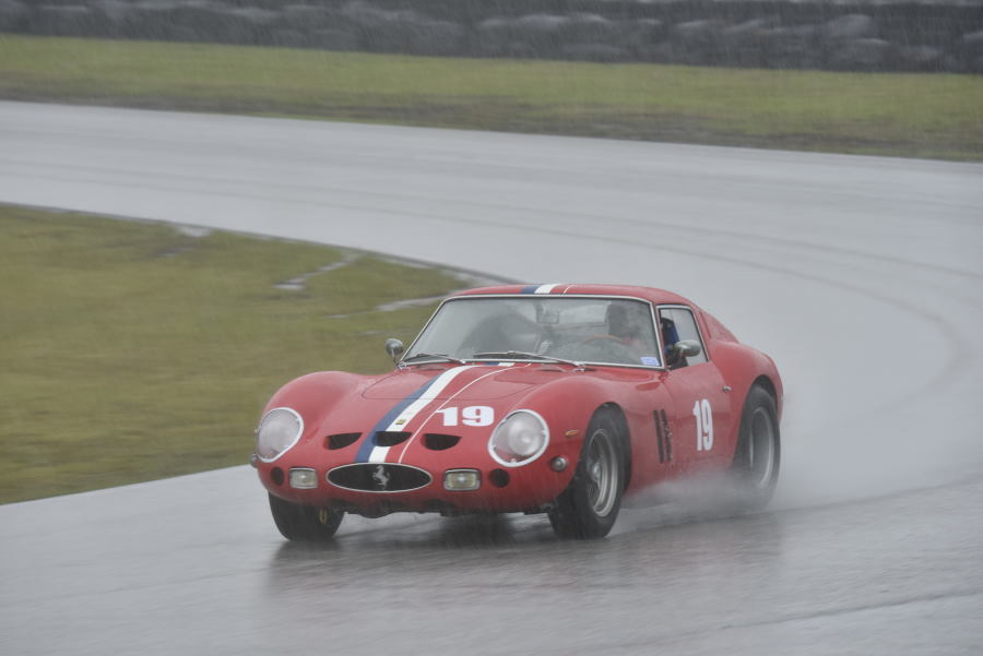 250 GTO